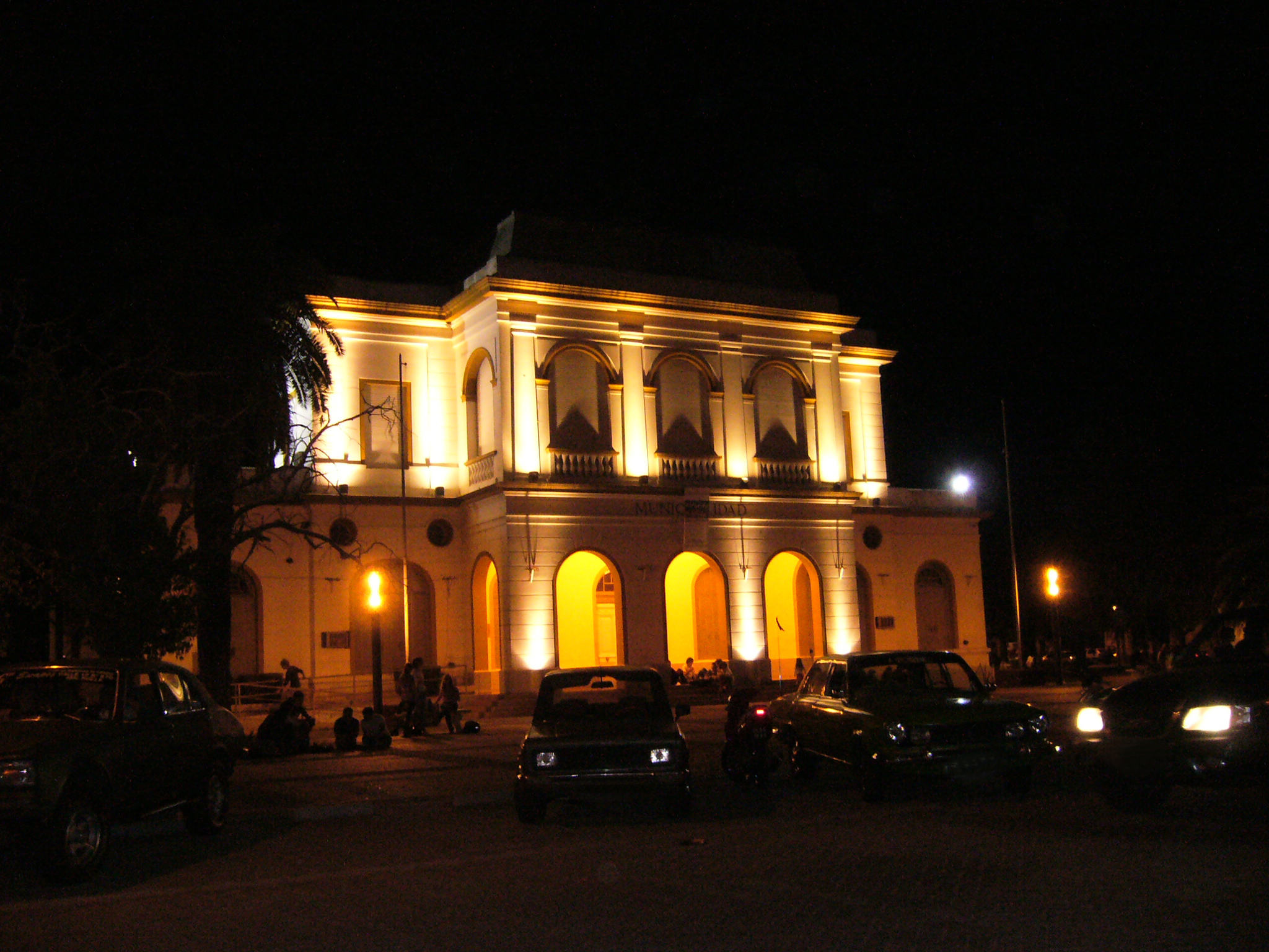 Town hall of General Pico, in La Pampa Province, Argentina. Built between 1921 and 1924. [1]